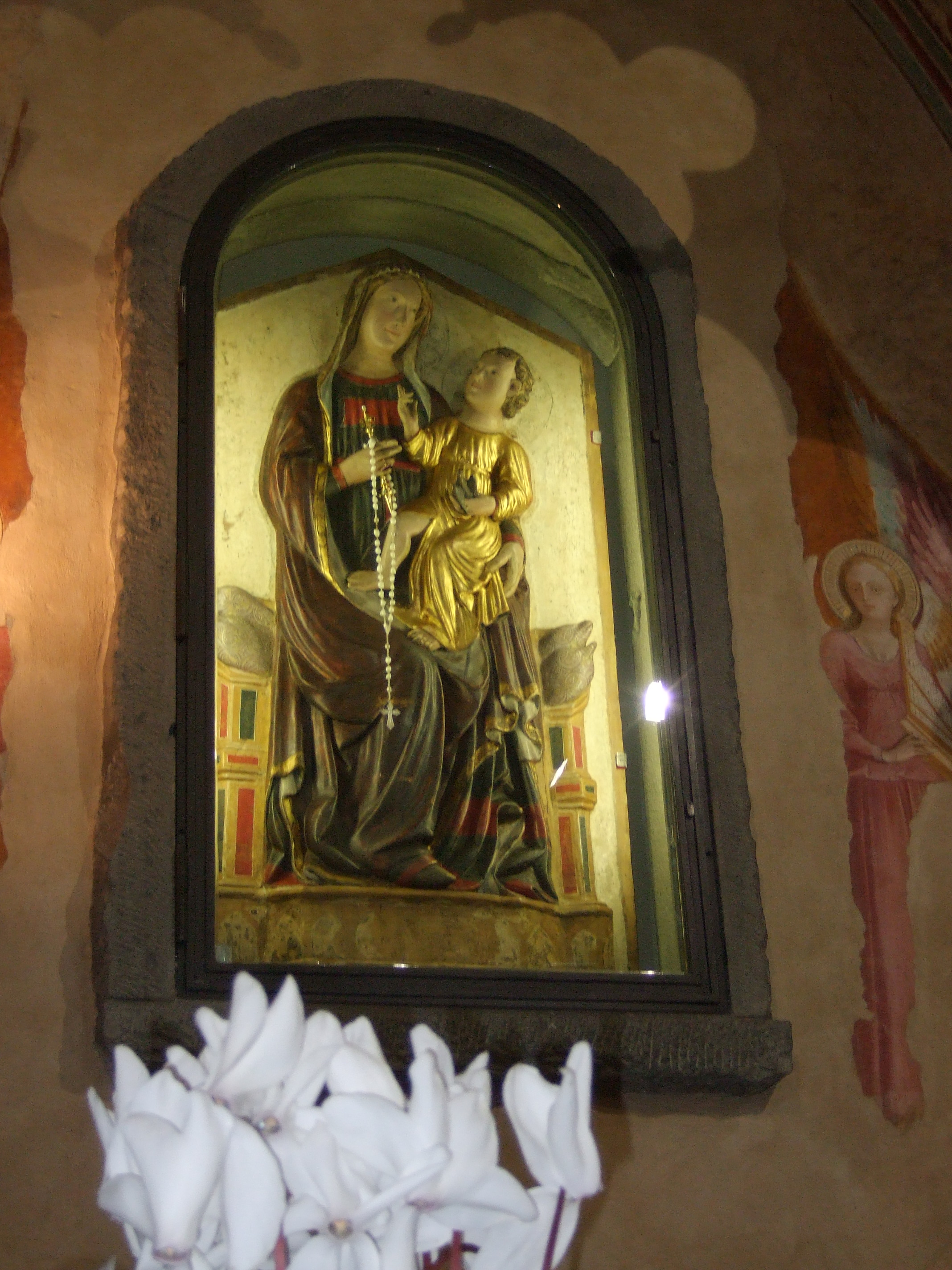 Santuario Madre dei Bimbi Cigoli interno